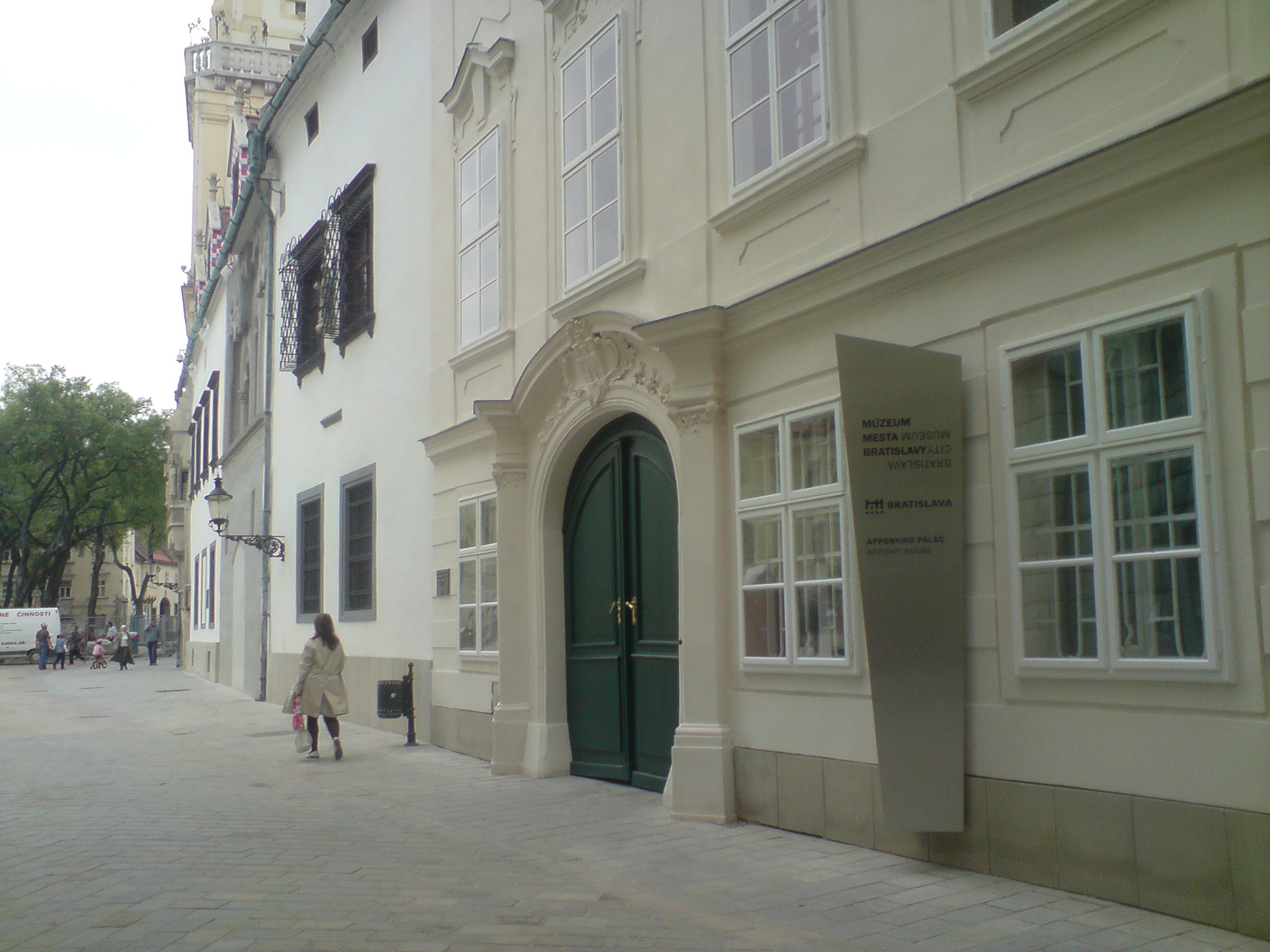 Aponiho palác, Radničná, Bratislava